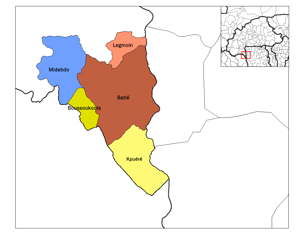 This map has been uploaded by Osiris fancy from to enable the Wikimedia Atlas of the World. Original uploader to was Rarelibra. Osiris fancy is not the creator of this map. Licensing information is below. Map of the departments of Noumbiel province in Burkina Faso. Created by Rarelibra 03:31, 30 September 2006 (UTC) for public domain use, using MapInfo Professional v8.5 and various mapping resources.